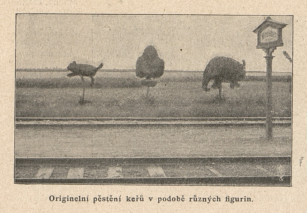 Clipped shrubs outside a train station in Minsleben, Germany, in 1904. According to a related article, a rail employee clipped 89 bushes into shapes of animals and people, making it an attraction for passing-by passengers.